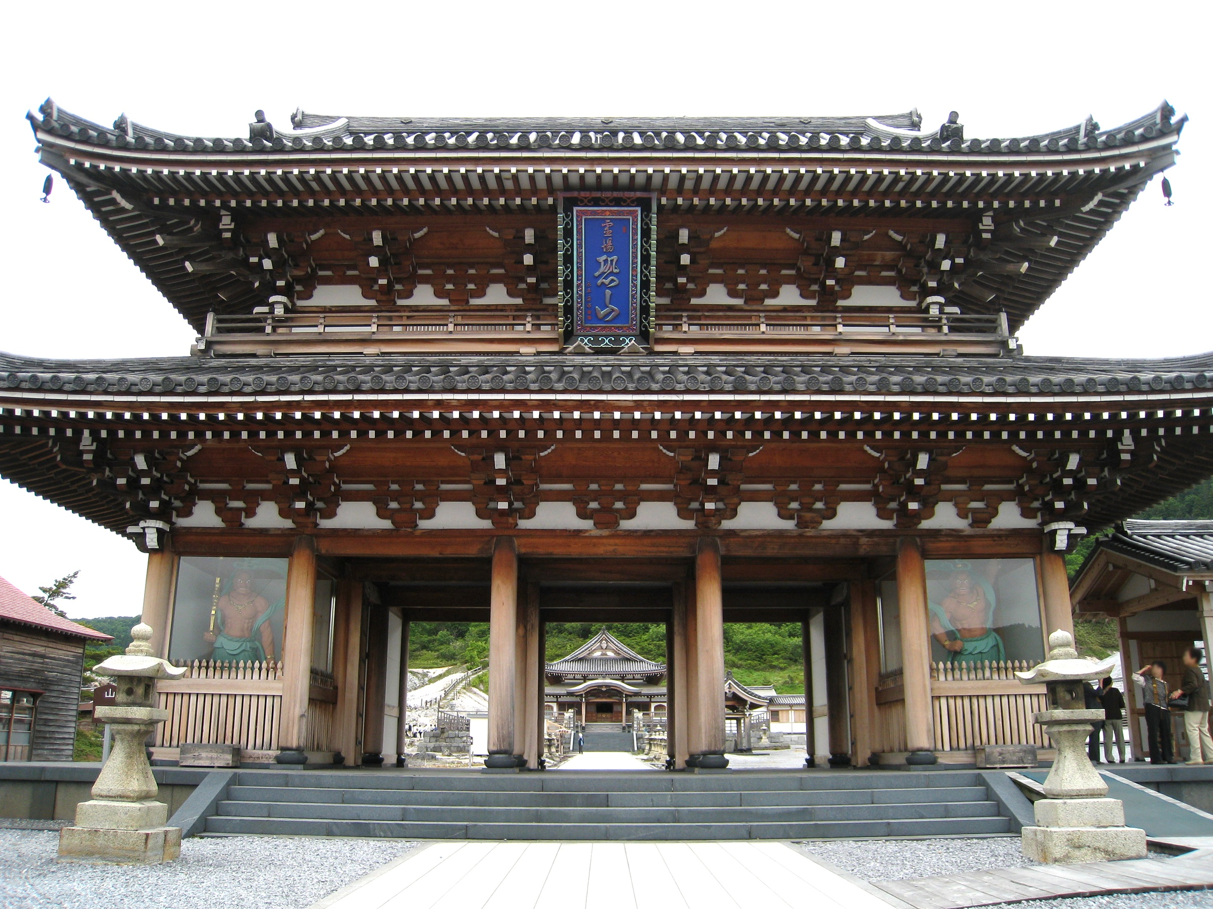 Sanmon Gate of Bodai-ji Temple at Mount Osore, This photo taken in June 24, 2008